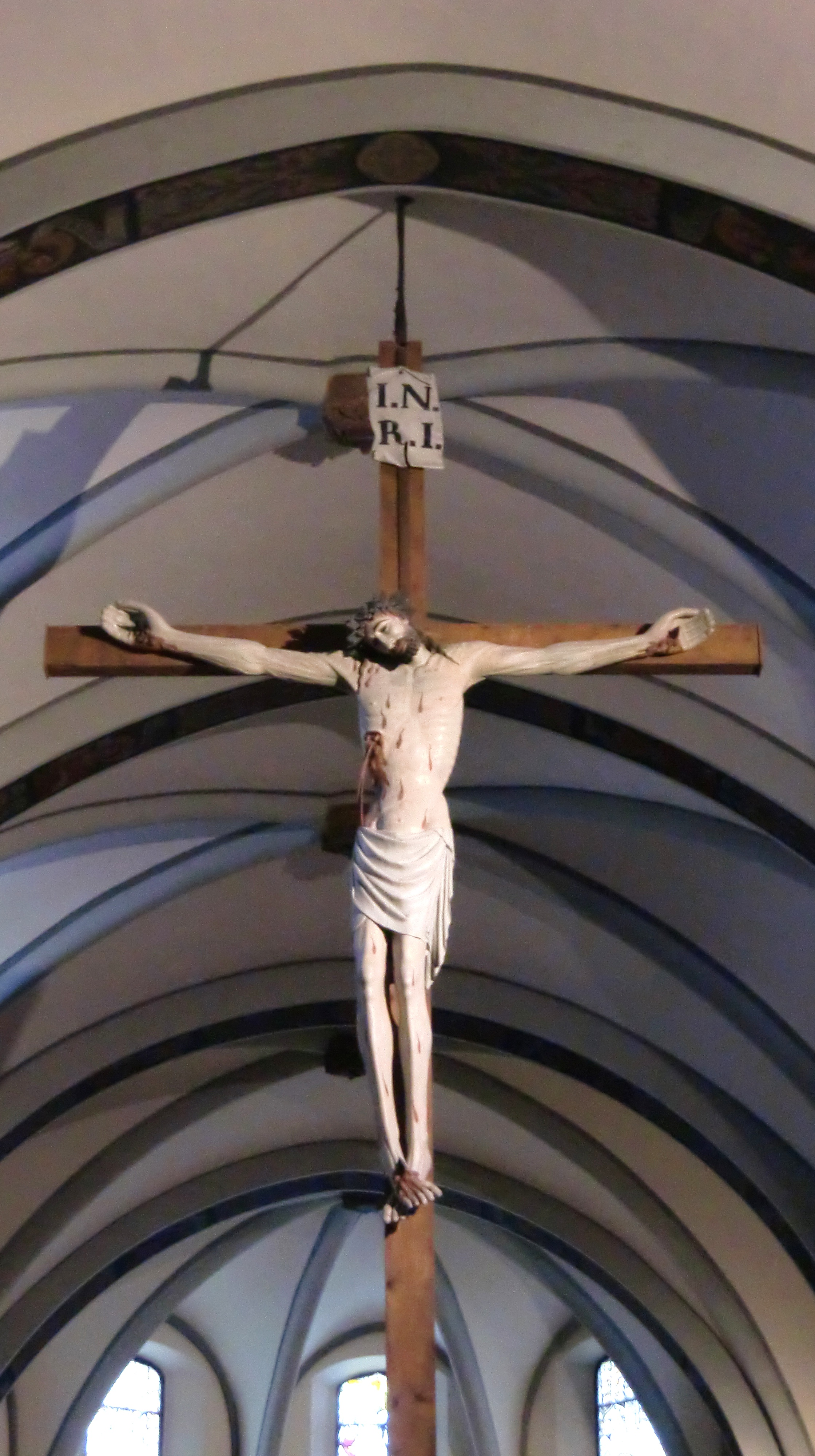 Aosta, Cathedral, Swiss-German sculptor, crucifixion, painted wood, 1397 (In the background the vaults built at the end of the fifteenth century)